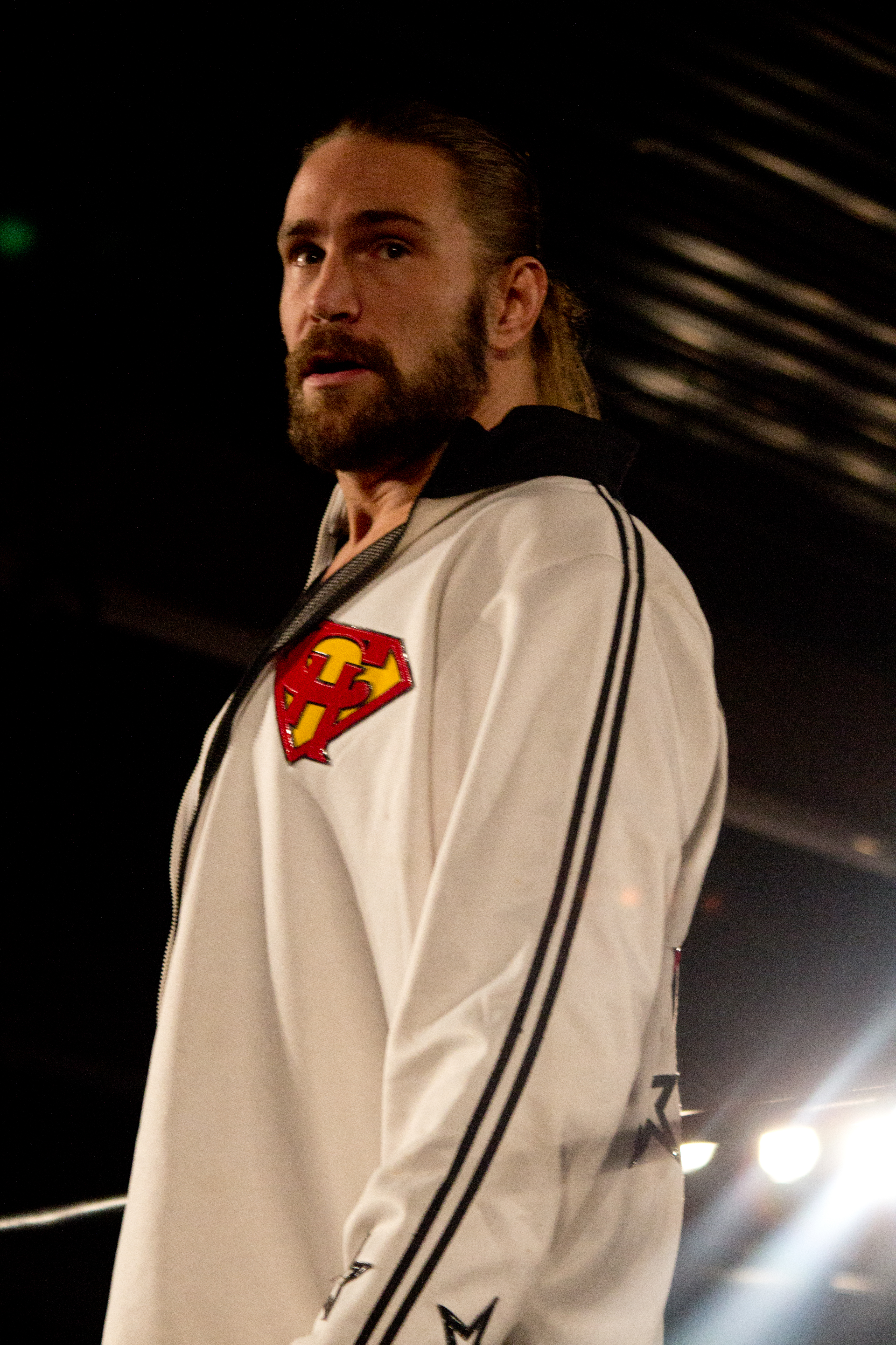 Chris Hero at ROH's first event in Nashville, TN in January 2014.